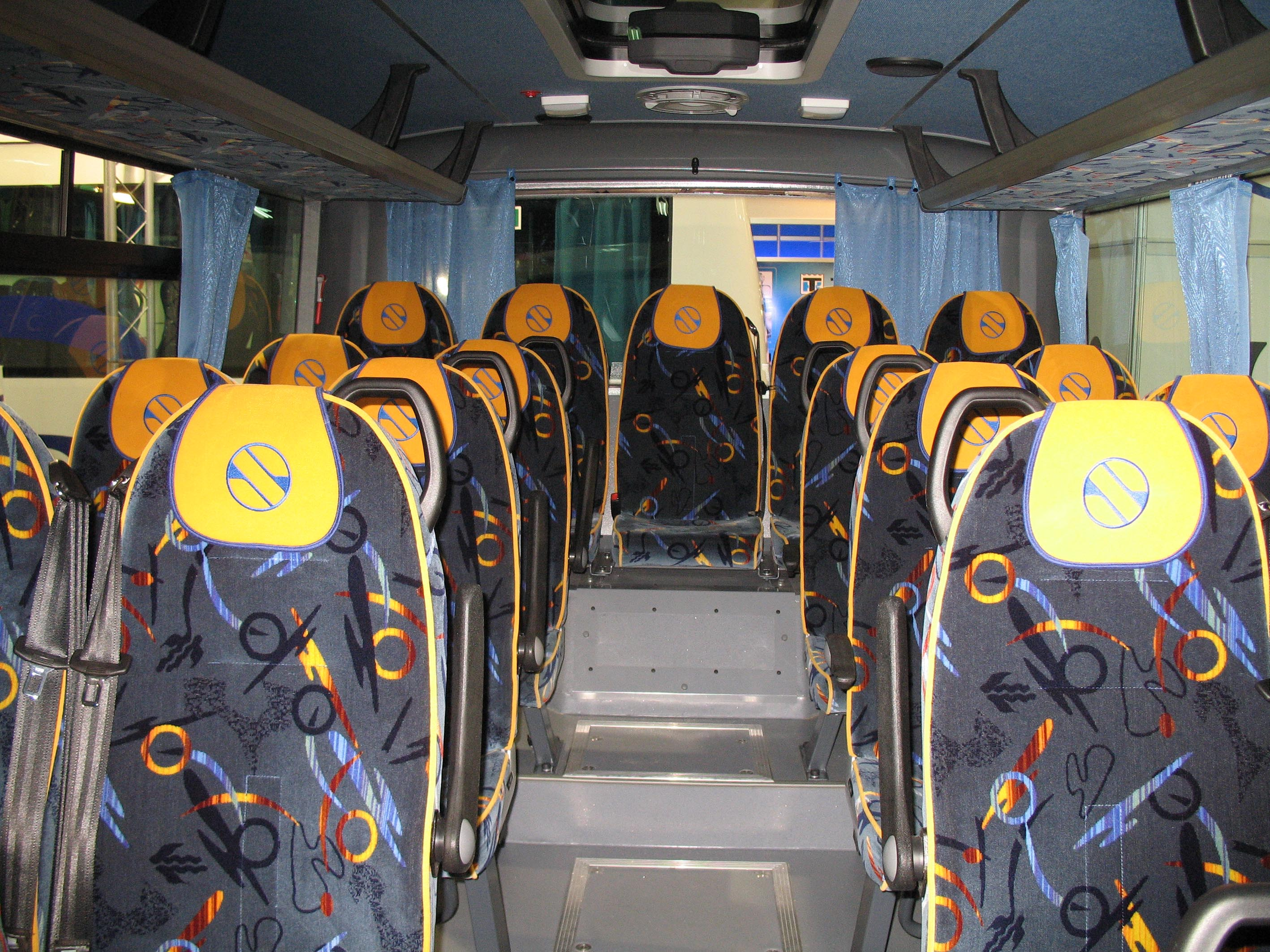 Solbus Solway 11 (SL series) bus interior in Kielce, Poland. Built 2008. Transexpo 2008.